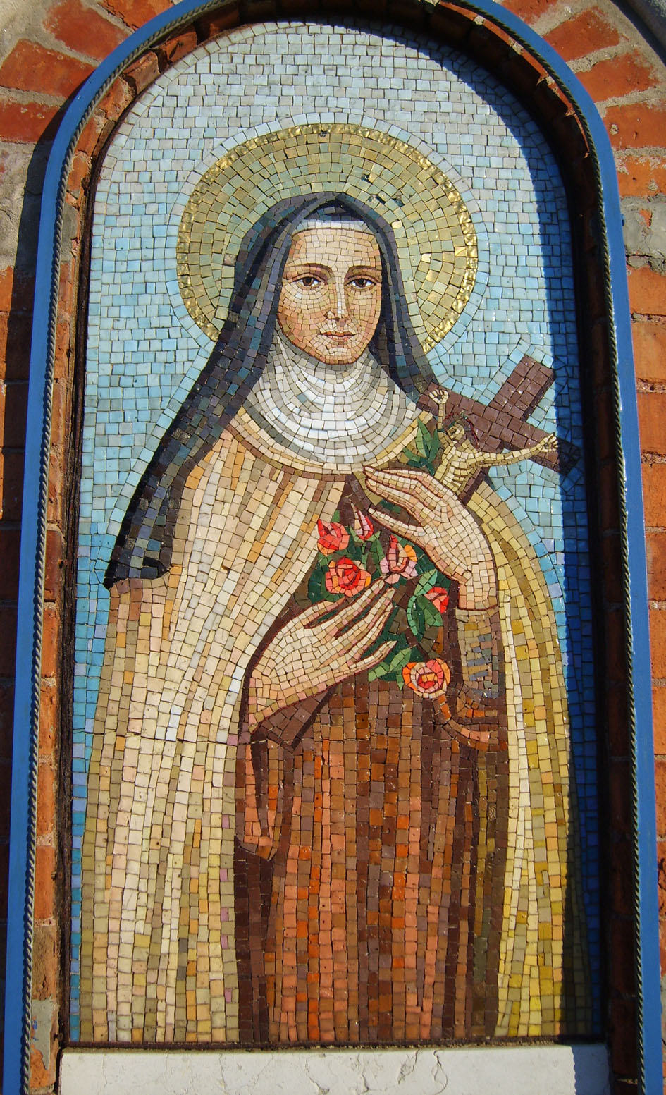 Ikon of Venice